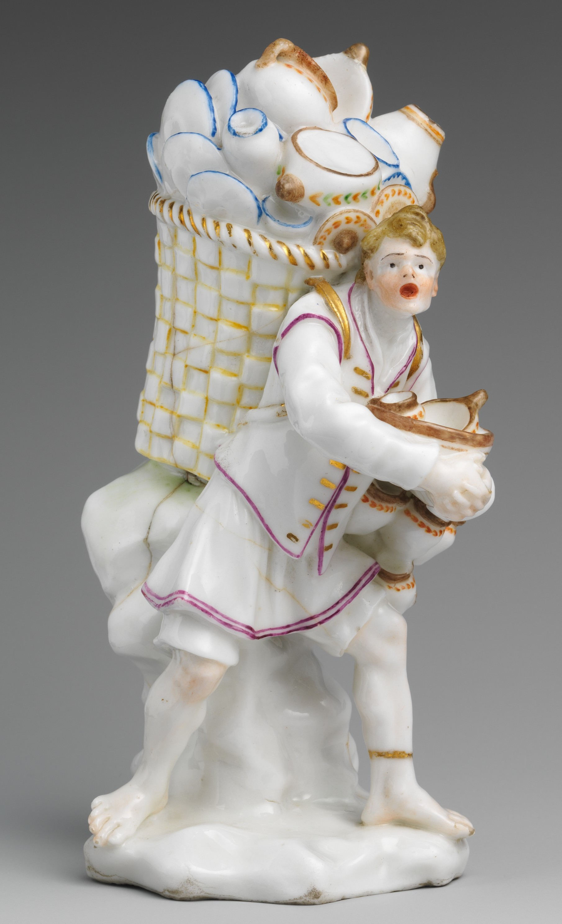 Italian, Naples; Figure; Ceramics-Porcelain, After a print by Annibale Carracci (Italian, Bologna 1560–1609 Rome)